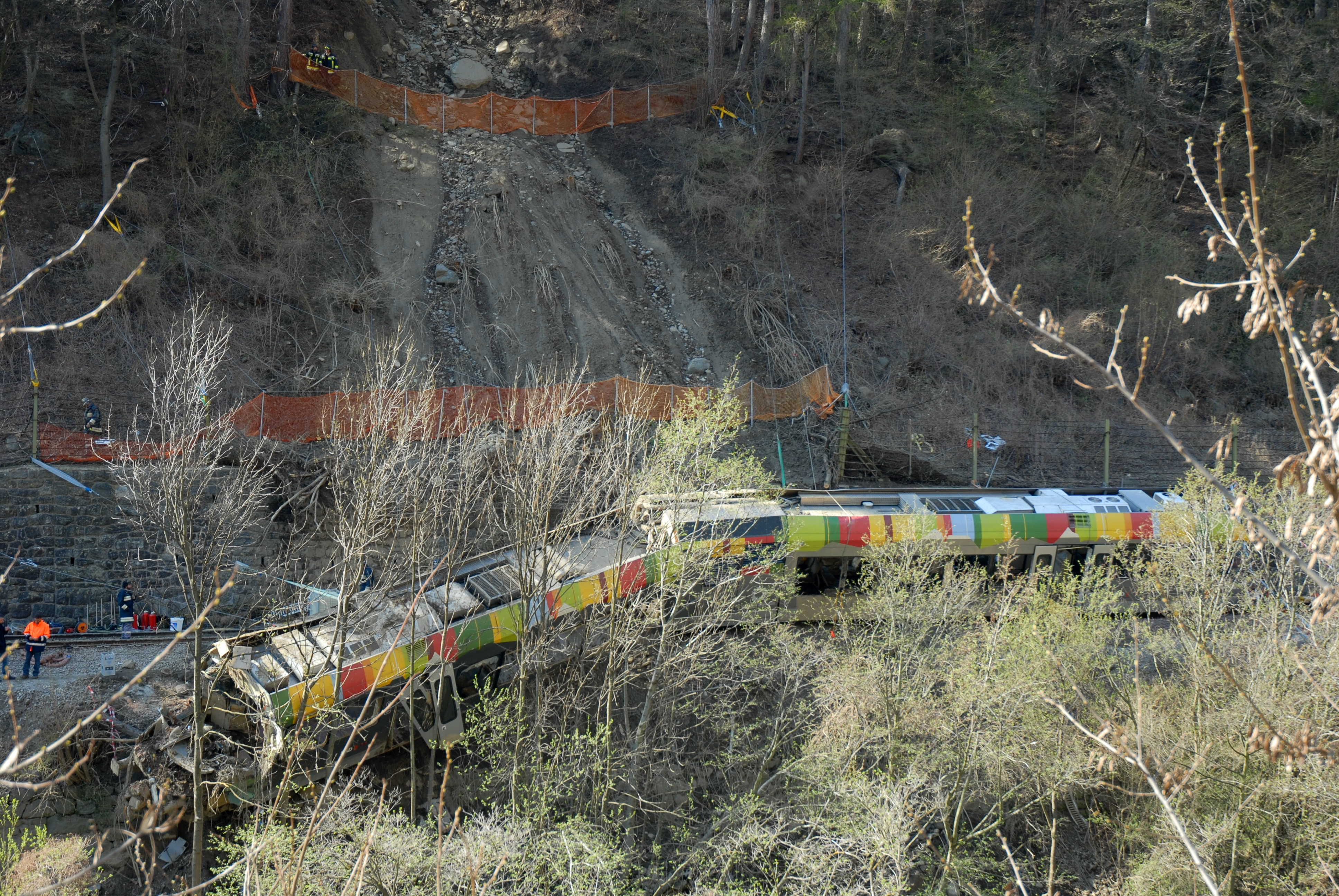 The accident of the Vinschgau railway on 2010.04.12, caused by a mudflow. 9 persons died, 28 were injured.